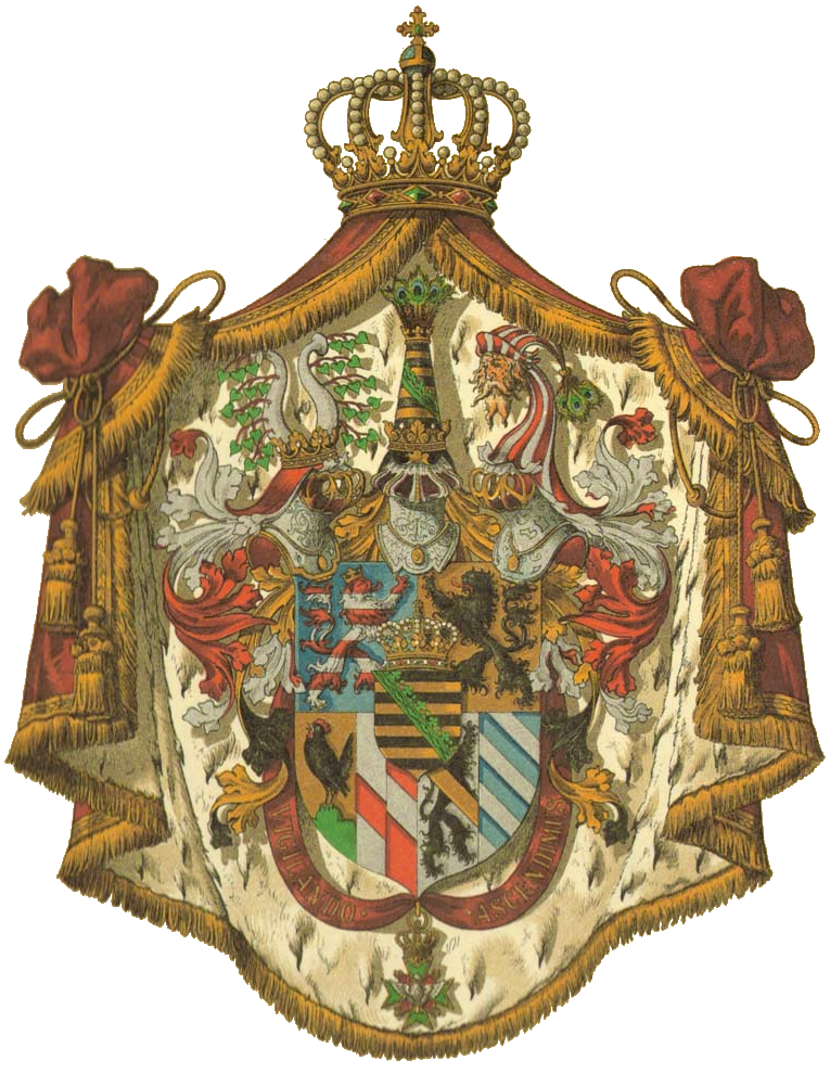 Coat of arms of the Grand Duchy of Saxe-Weimar-Eisenach